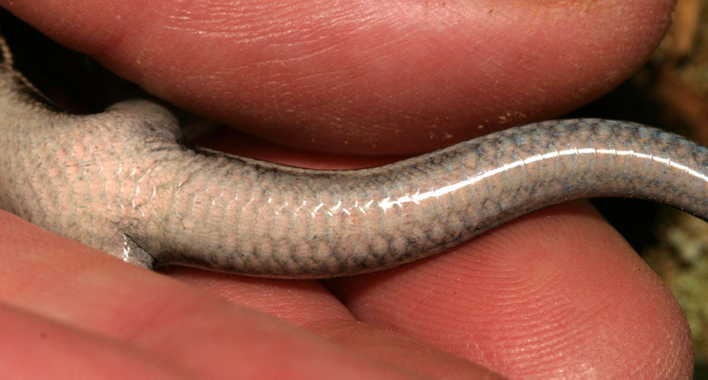 Five-lined Skink, Eumeces fasciatus. Ventral view, shows enlarged middle row of scales, characteristic of E. fasciatus. Location: Orange County, North Carolina, United States